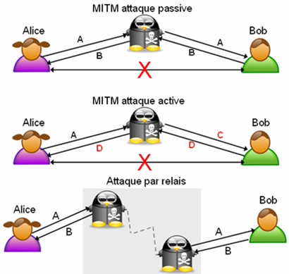 MITM et attaque par relais